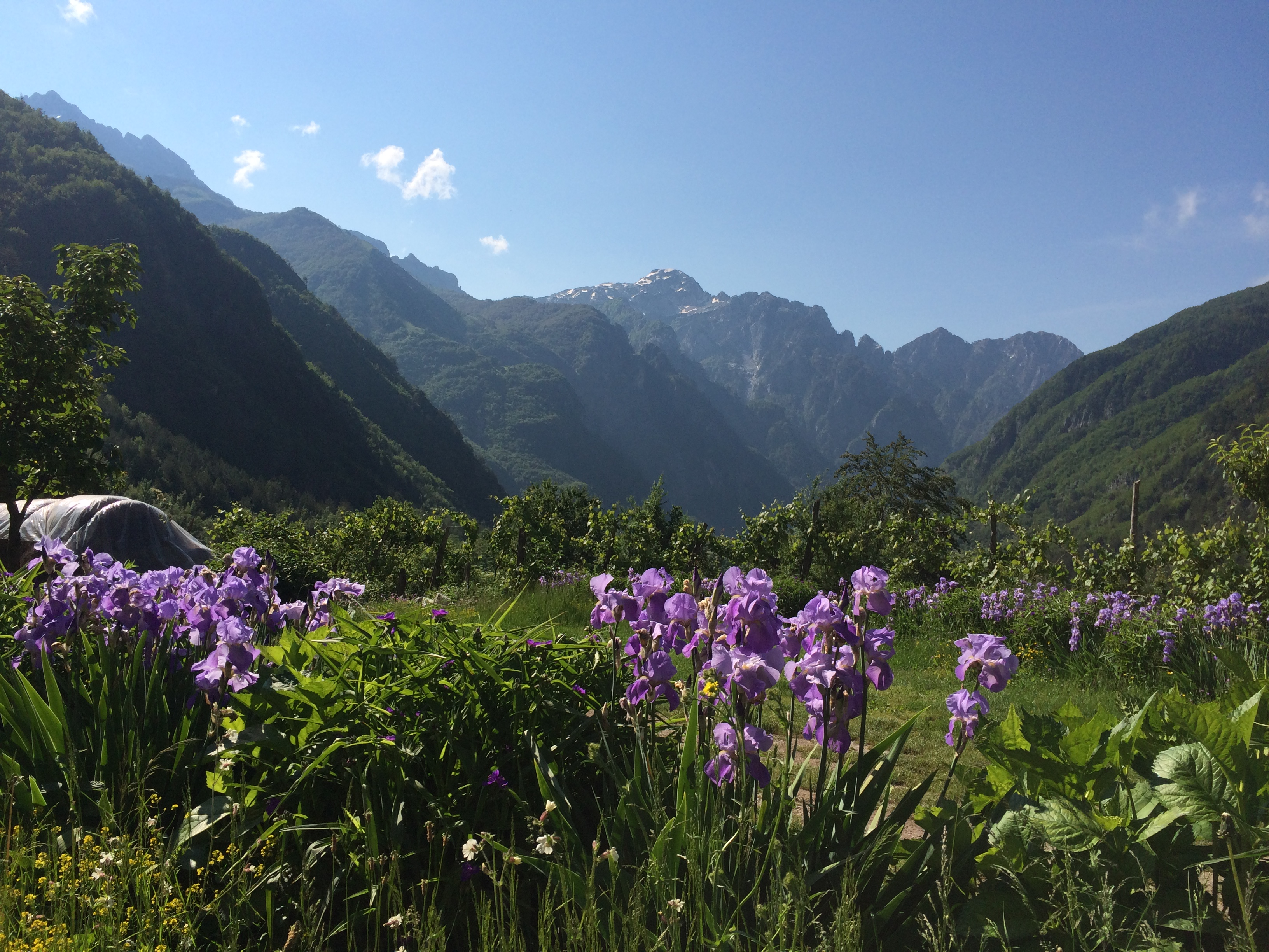 Qender Theth, Albania